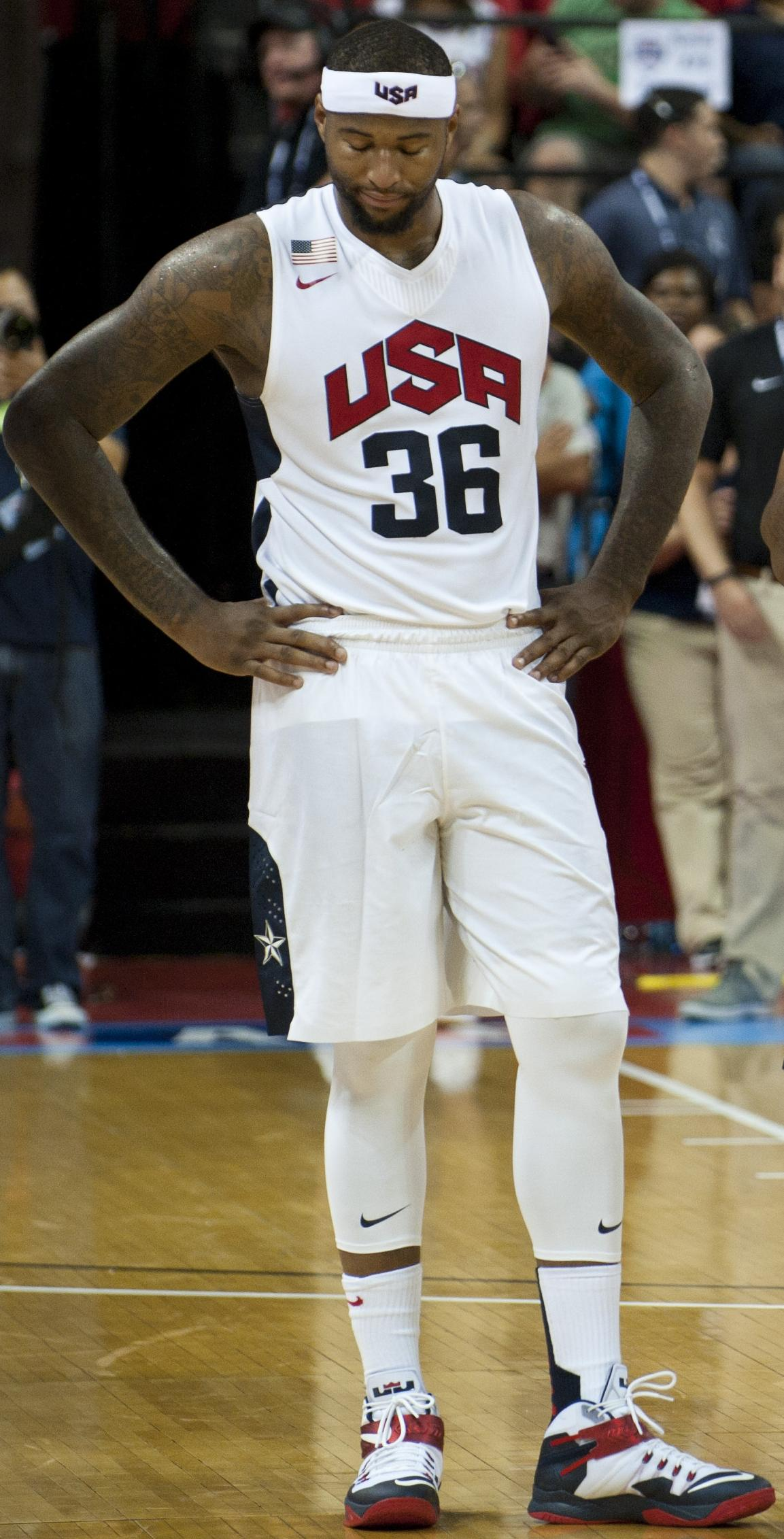 8/6/2014 - DeMarcus Cousins on the USA Basketball Men’s National Team react after his teammate Paul George suffered a serious leg injury during the fourth quarter of an intra-squad scrimmage at the Thomas and Mack Center in Las Vegas, August 1, 2014. After George was carted off the court, head coach Mike Krzyzewski addressed the arena stating the game would not continue out of respect to George and his family.